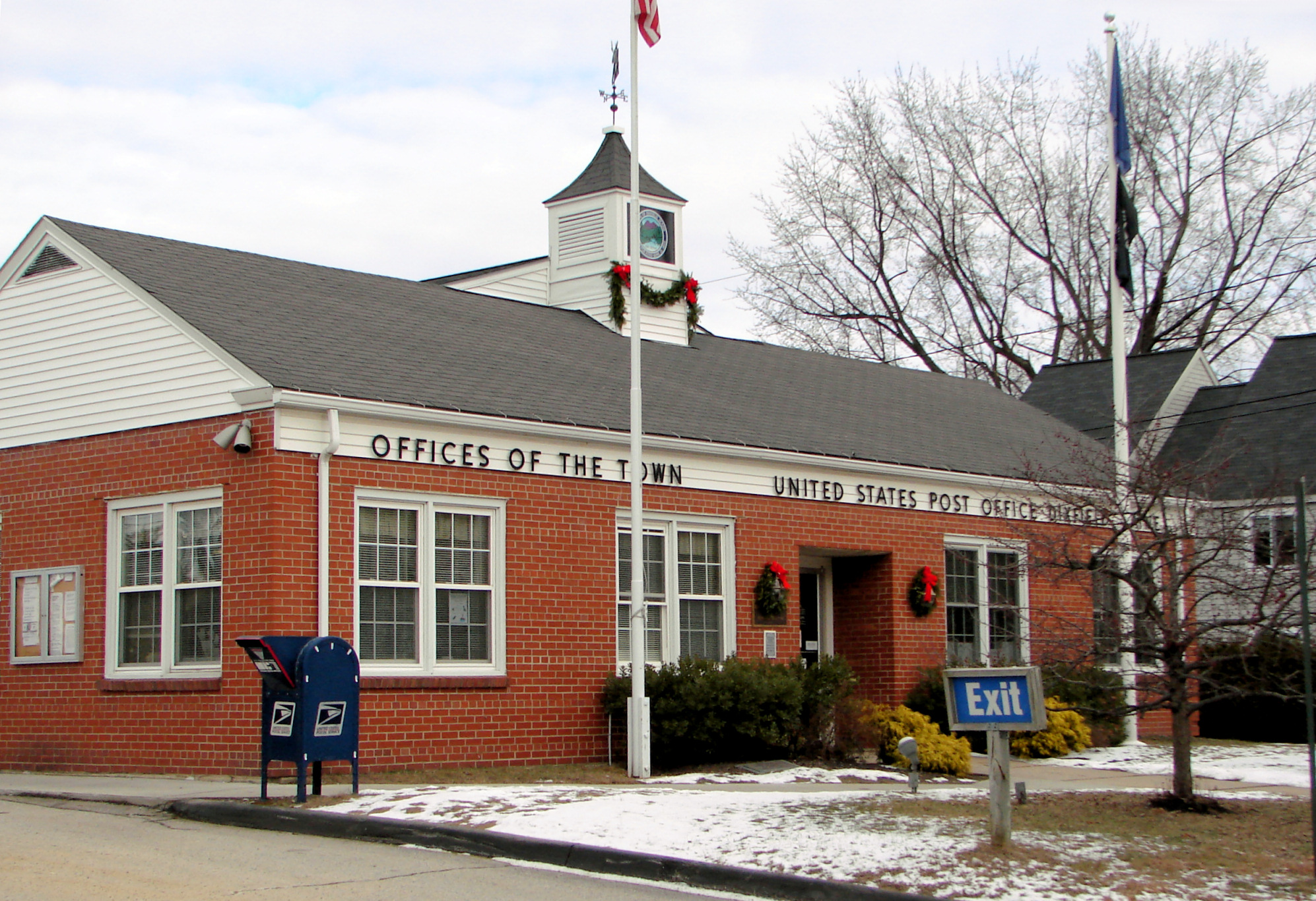 Townhall and post office of Dixfield, Maine, United States